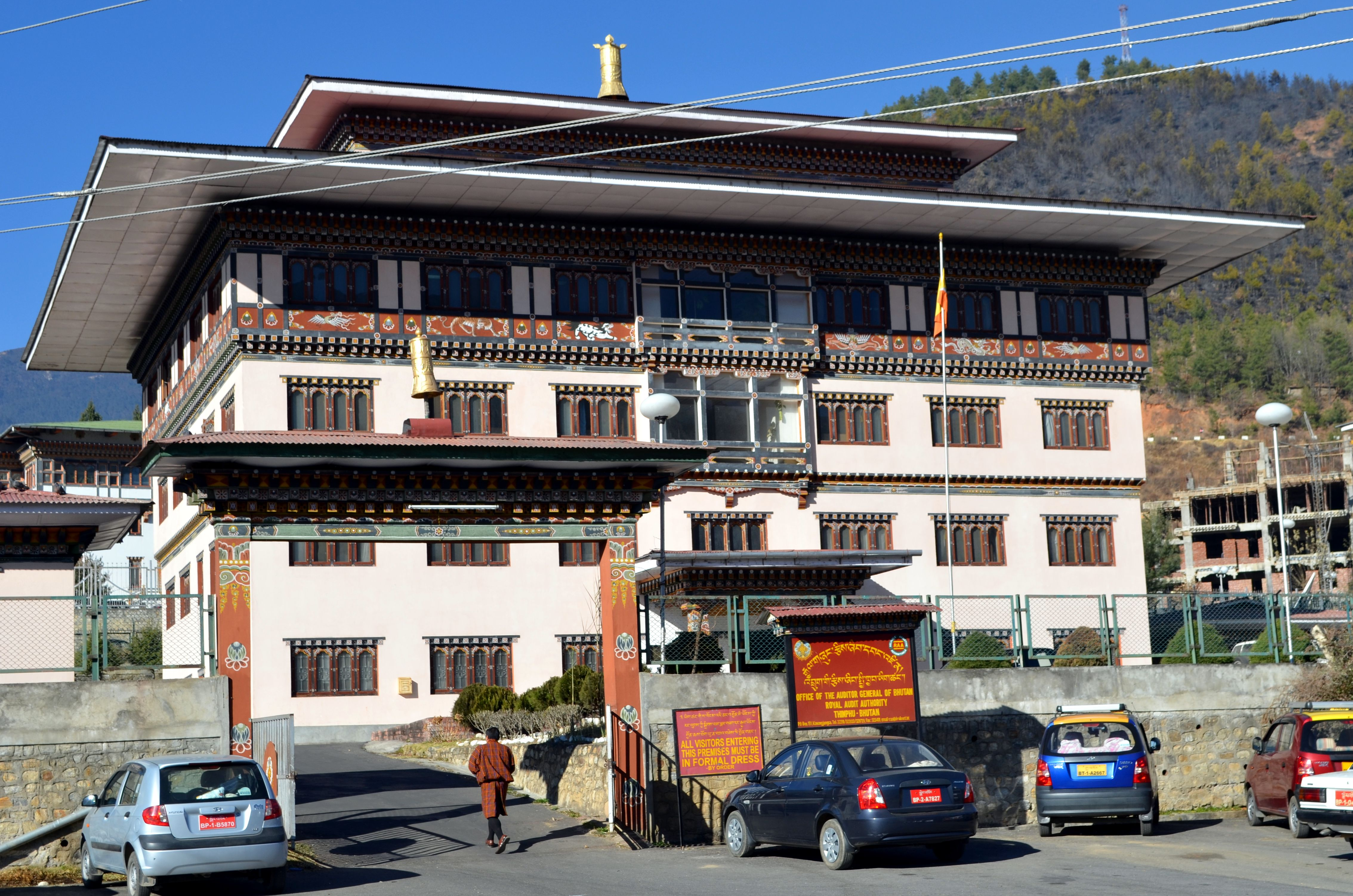 Royal Audit Authority office building. Kawangjantsa, Thimphu, Bhutan